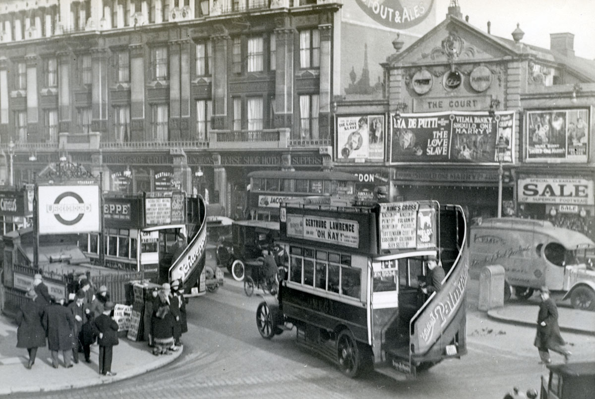 Tottenham Court Road at the junction with Oxford Street. The building on the left was demolished in 1928 to make way for the Dominion Theatre.